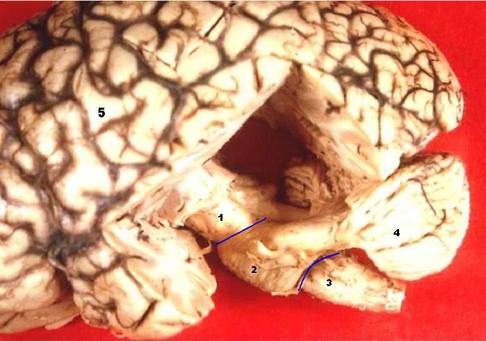 Human brain - lateral view, dissected revealing the brainstem If we take out the area of the Cerebrum outlined in blue in the [Image:Human brain lateral view cut-line brainstem.JPG Photo before],the brainstem and its connections to the Cerebrum & Cerebellum can be appreciated. Mesencephalon - Midbrain Pons Medulla oblongata Cerebellum Cerebrum (font: arial black, size: 10 and 14)